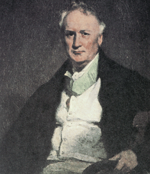 Portrait of Anders Ljungstedt by English painter George Chinnery. Held at Peabody Essex Museum, Salem, MA